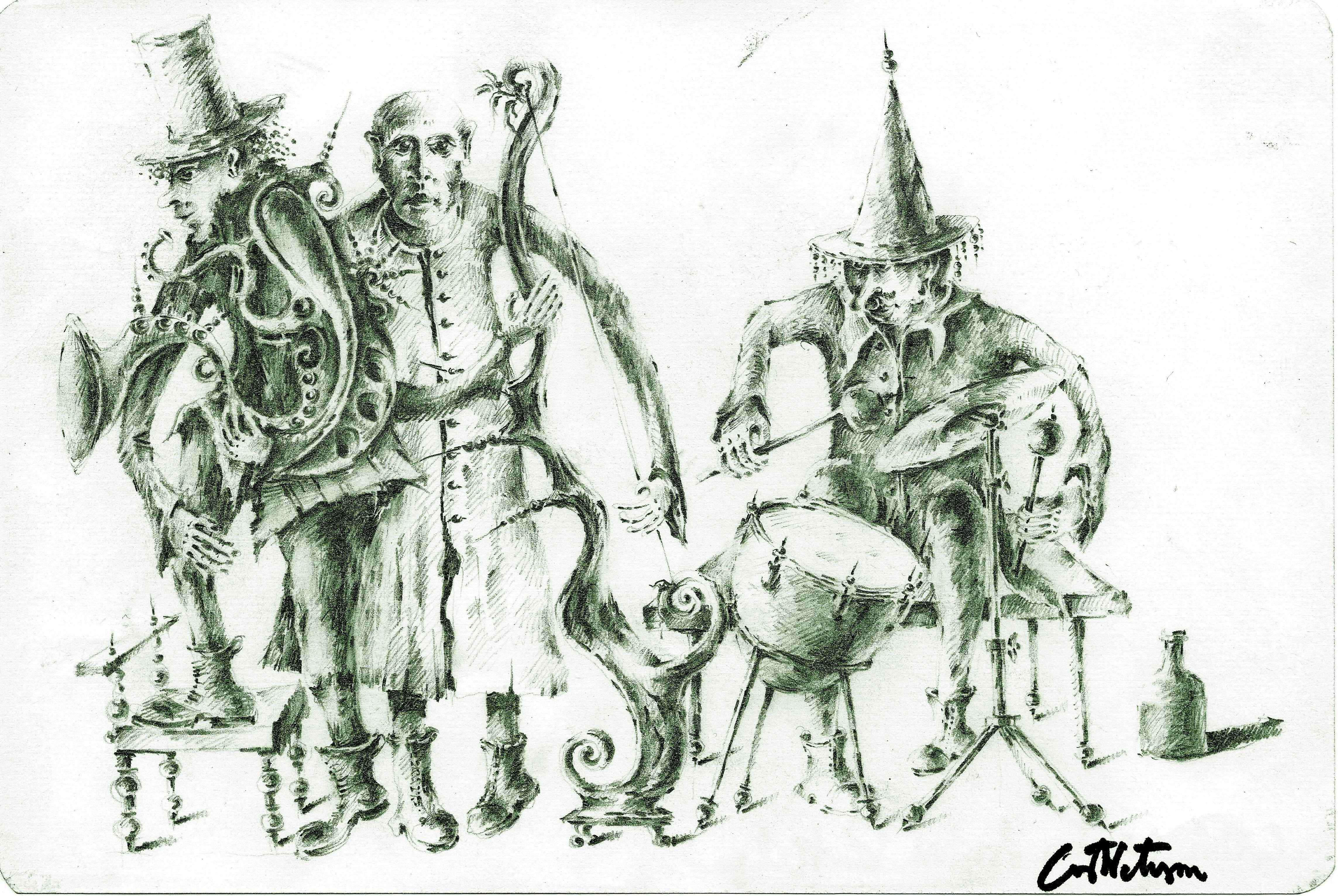 Trio - from Fantastic Musical Instruments cycle (drawing pencil) 1980